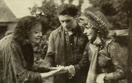 Still from the American film The Light in the Clearing (1921) with Eugenie Besserer, A. Edward Sutherland, and Clara Horton, on page 67 of the February 1922 Photoplay.